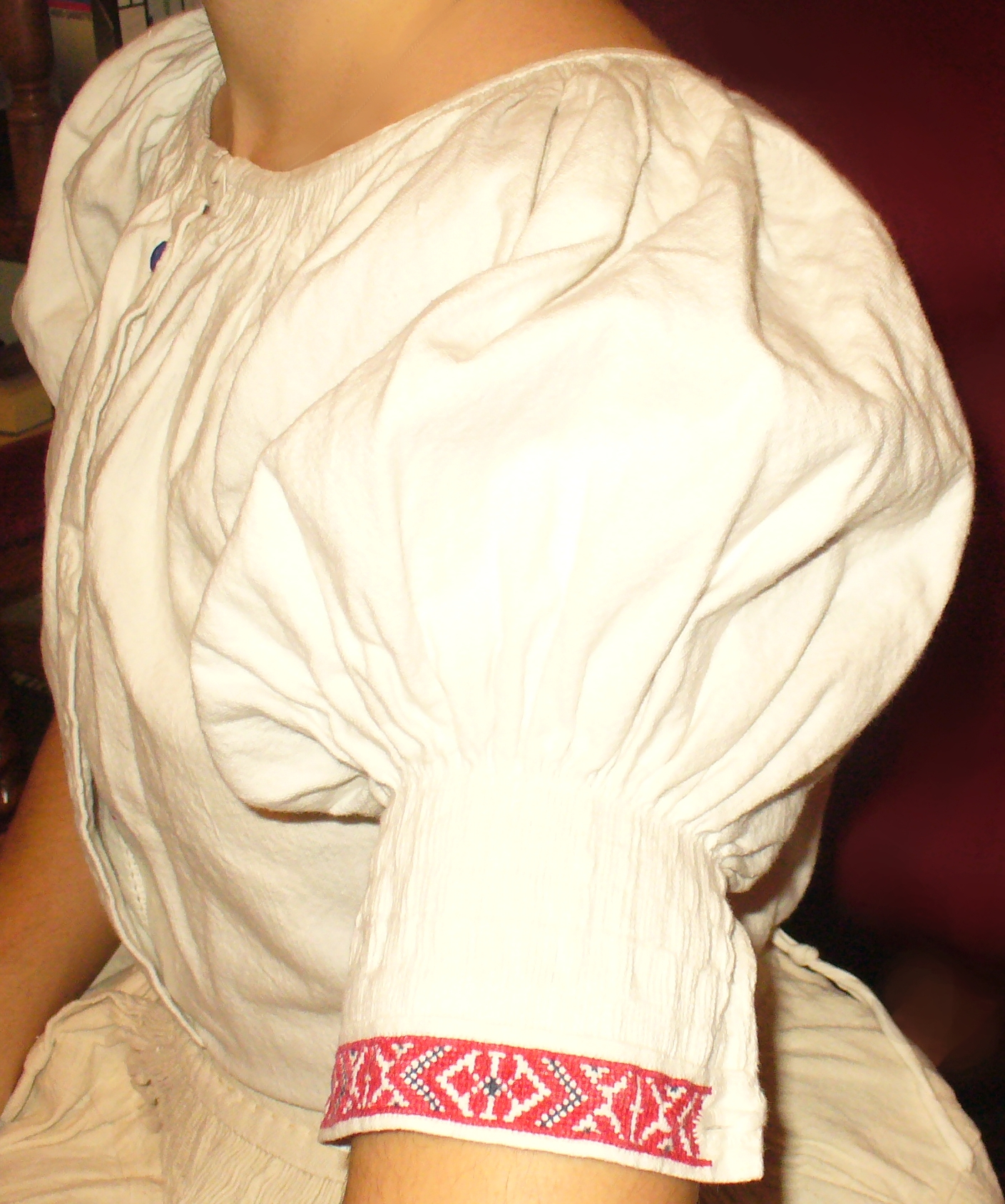 Traditional clothes in Plášťovce